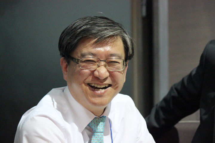 Prof. Seung-Gu Lee(Korea Reformed Theological Society, Seoul)